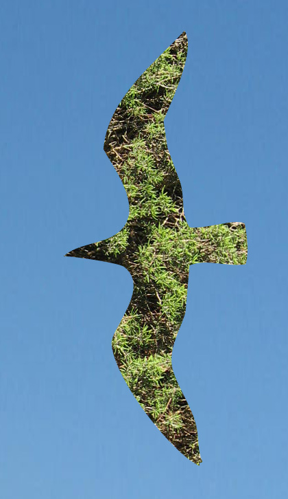 A picture with an applied layer mask